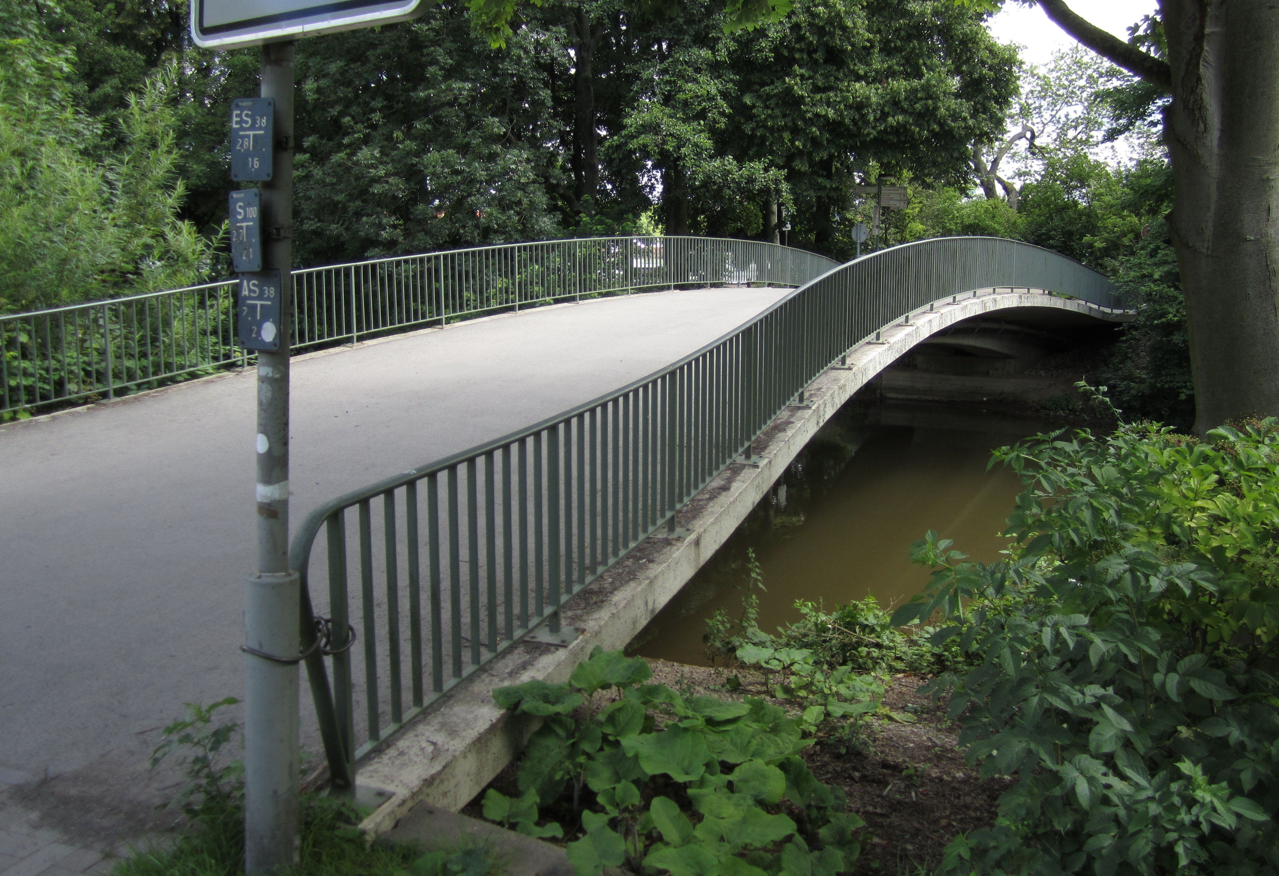 Papageienbrücke (Parrot's bridge) in Hanover, Germany.